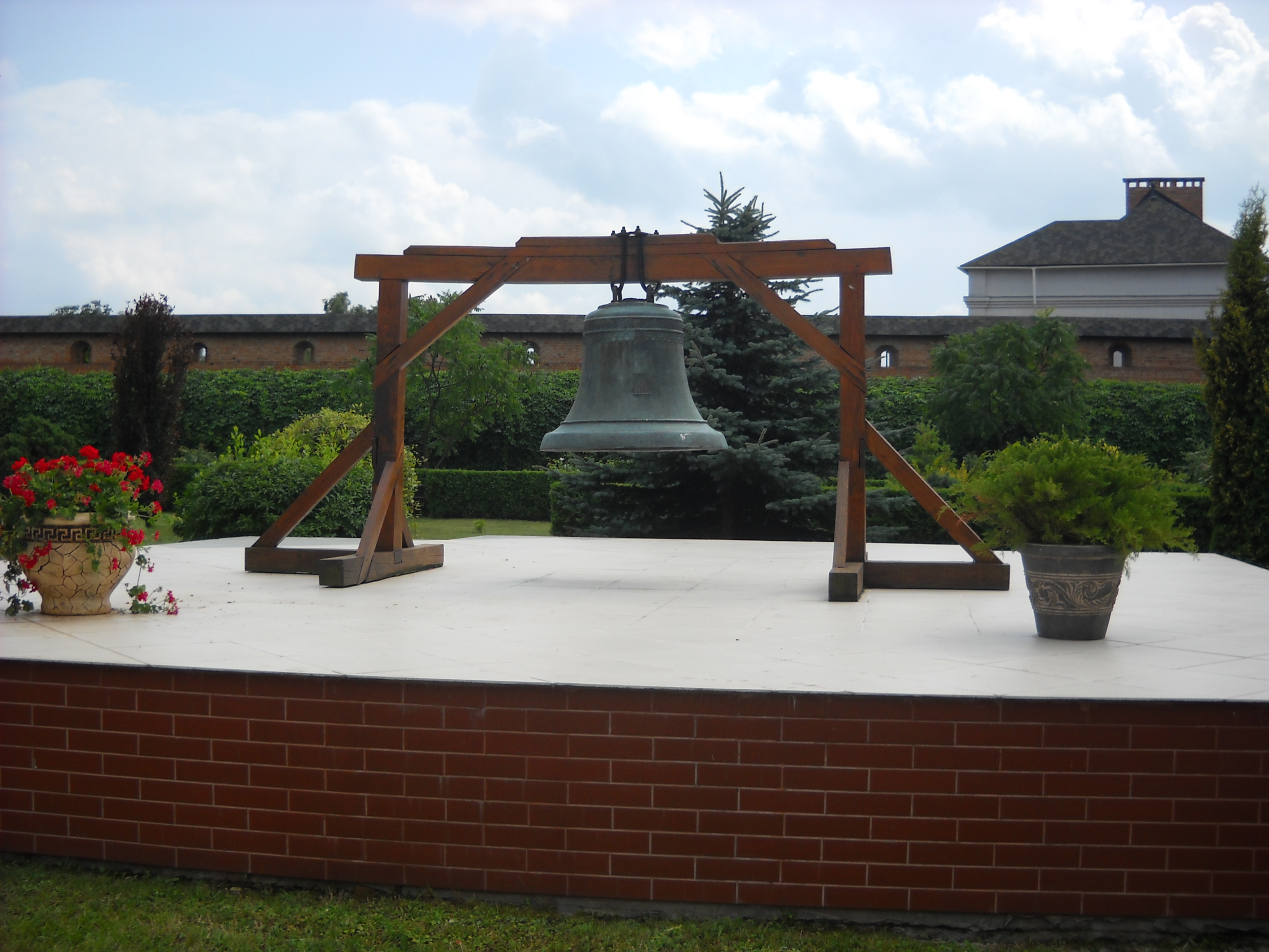 A bell in Zimne Monastery